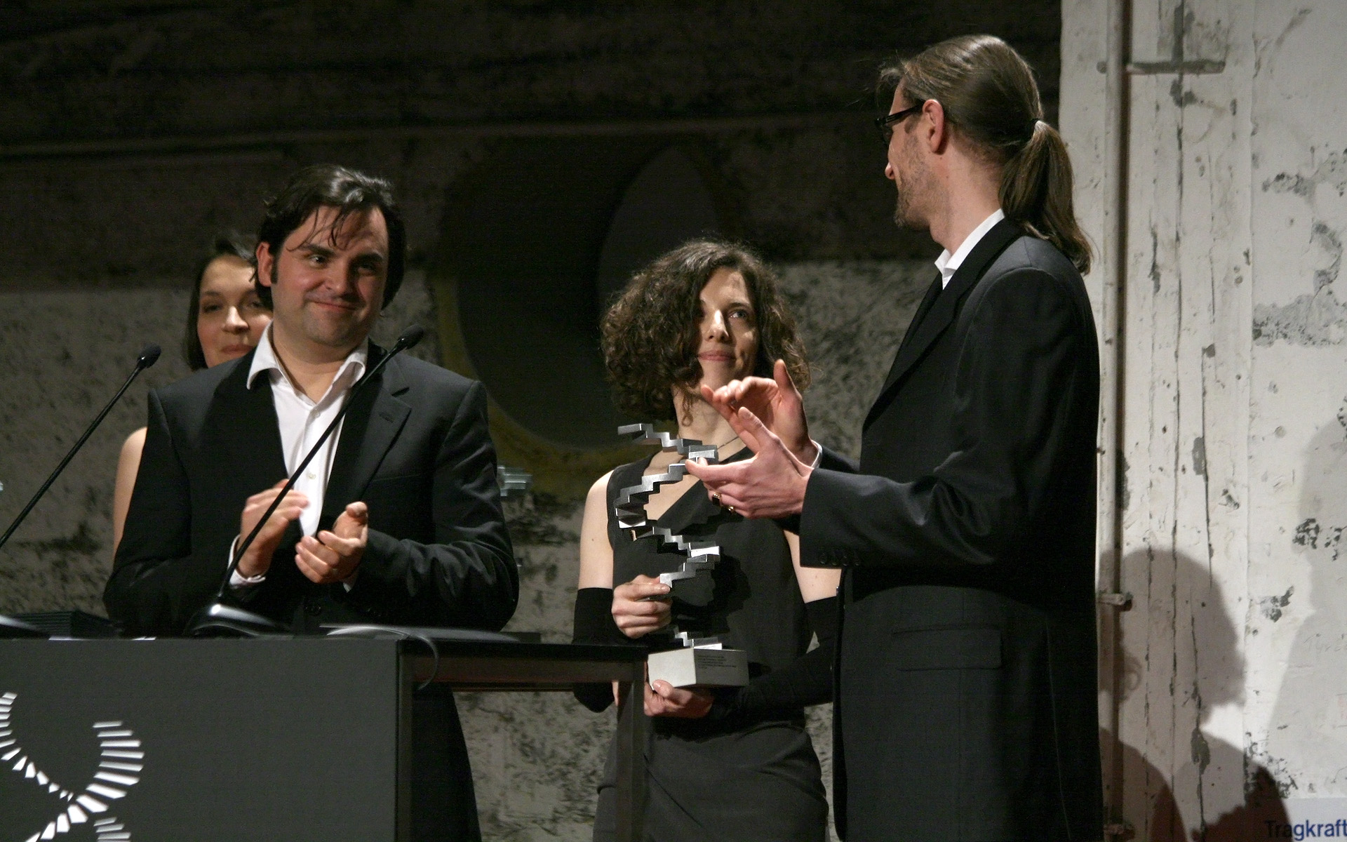 Klaus Kellermann, Veronika Hlawatsch and Bernhard Maisch; Austrian Film Awards 2012 (Vienna).